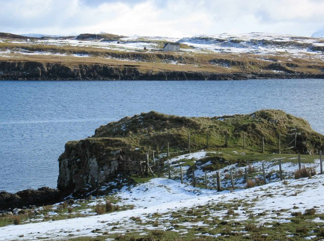 The ruins of Dun Feorlig, an Iron Age structure near Harlosh, on the isle of Skye, Scotland